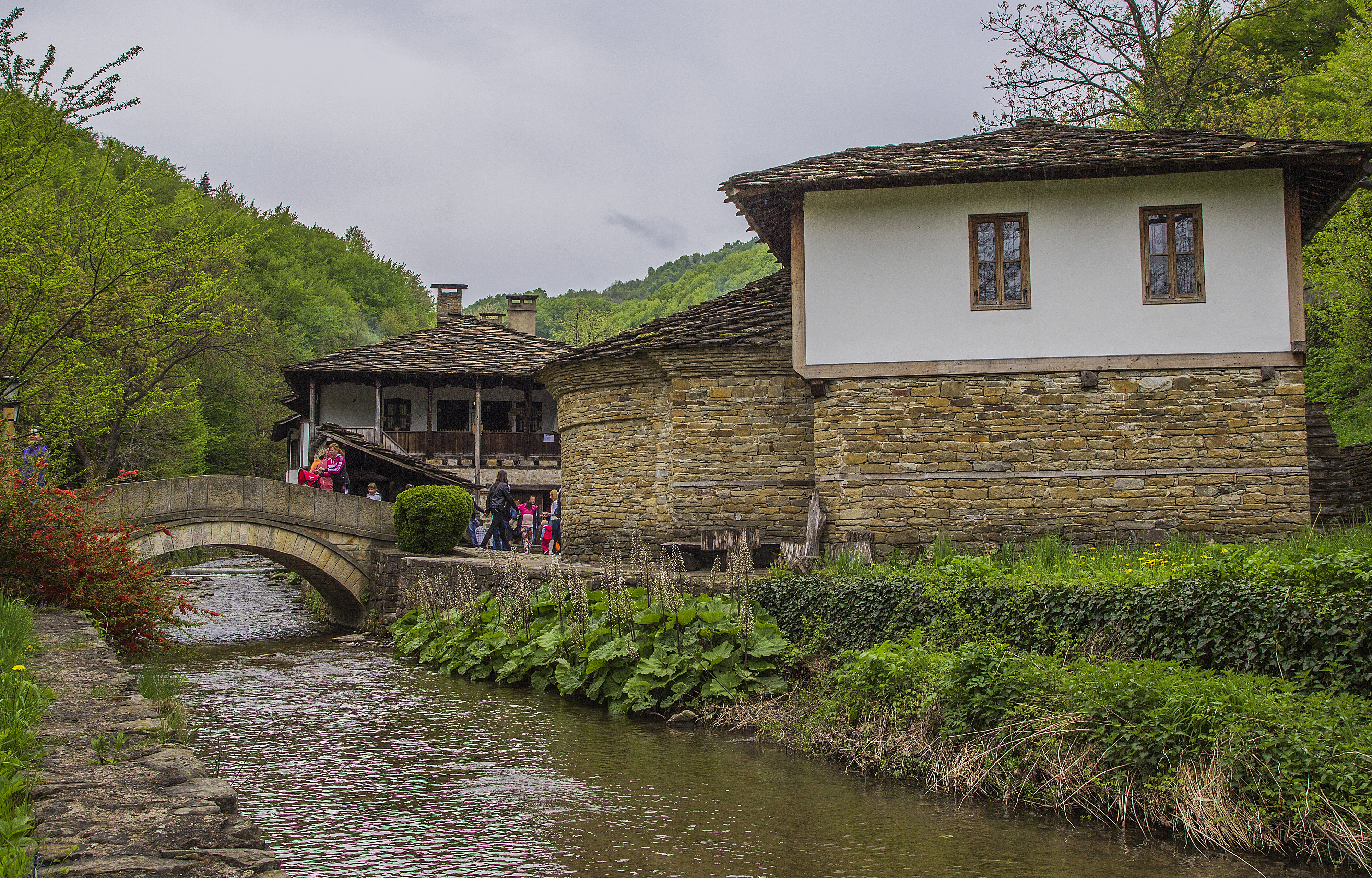 Architectural-Ethnographic Complex Etar